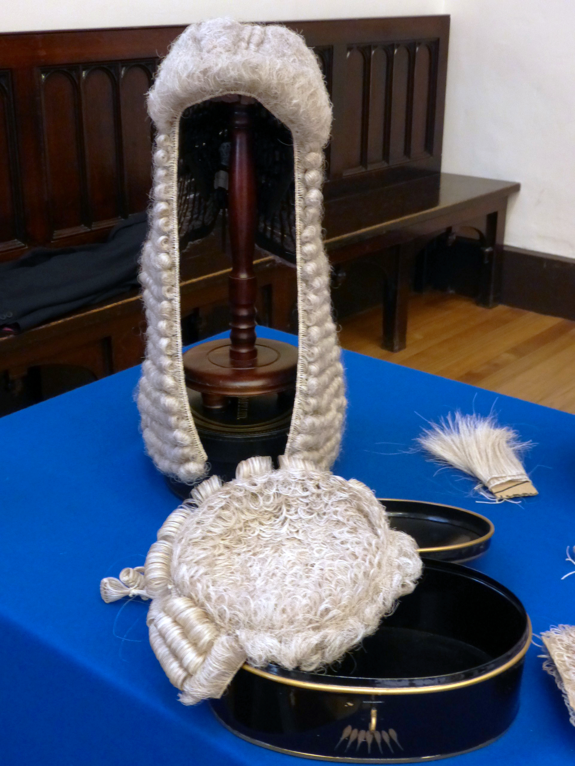 A judges's wig and advocate's wig on temporary display in Parliament Hall, Edinburgh